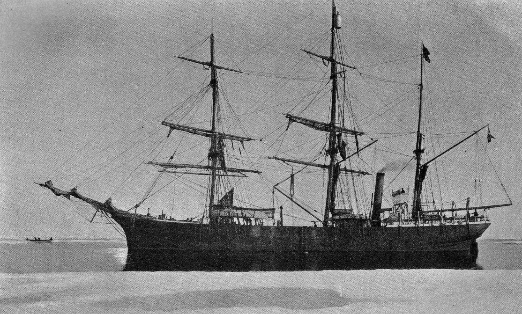 The Antarctic was a steamship built in Drammen, Norway in 1871. She was used on several research expeditions to the Arctic region and to Antarctica through 1898-1903. In 1895 the first confirmed landing on the mainland of Antarctica was made from this ship.